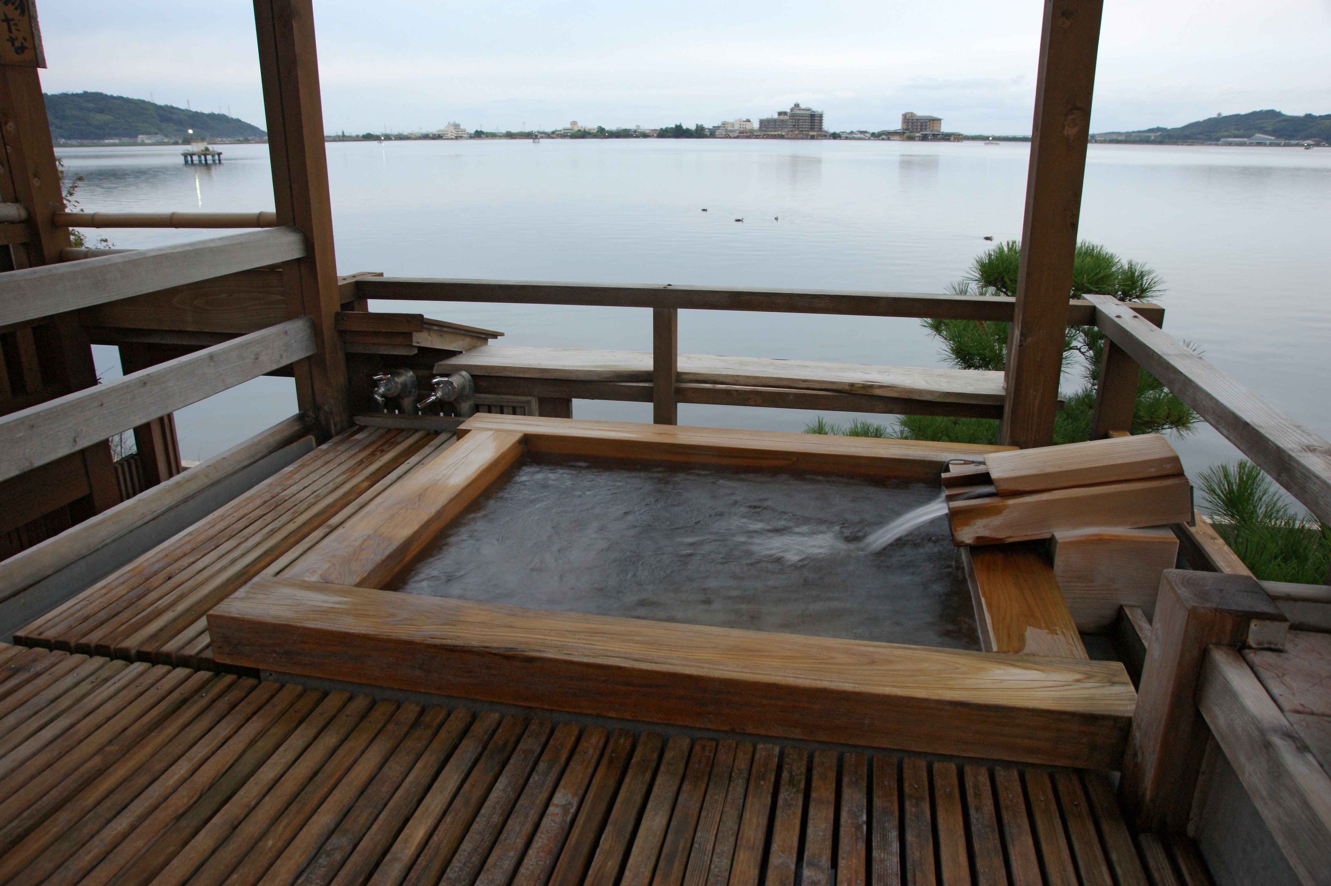 Togo Onsen, Yurihama, Tottori prefecture, Japan